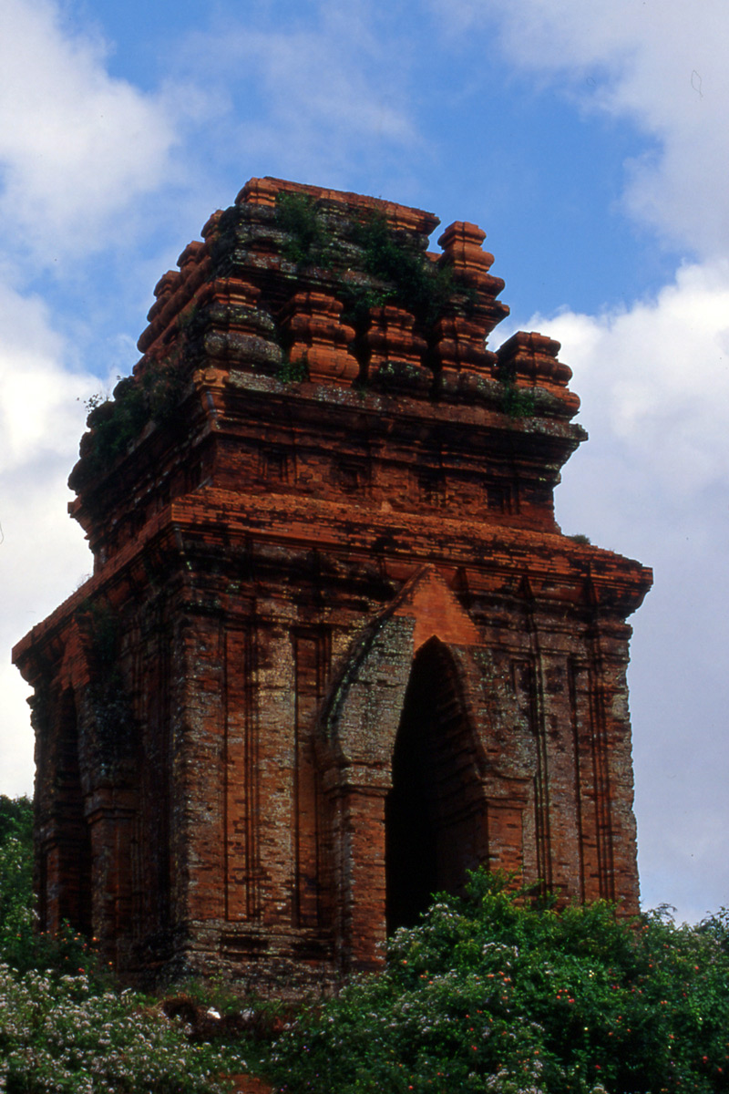 A Cham tower near Quy Nhon, Vietnam